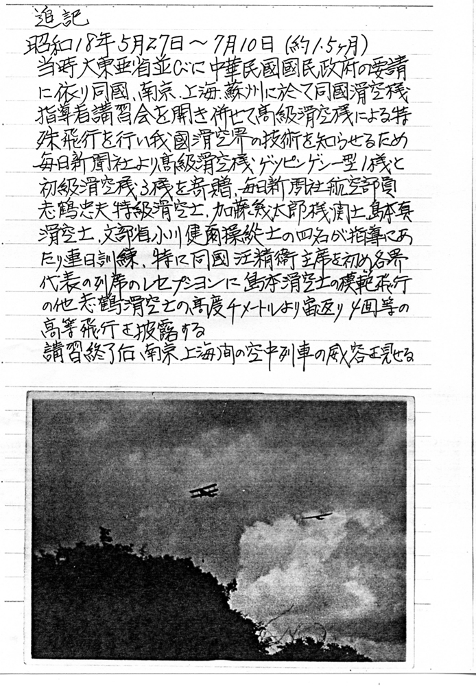 Reminder_memo